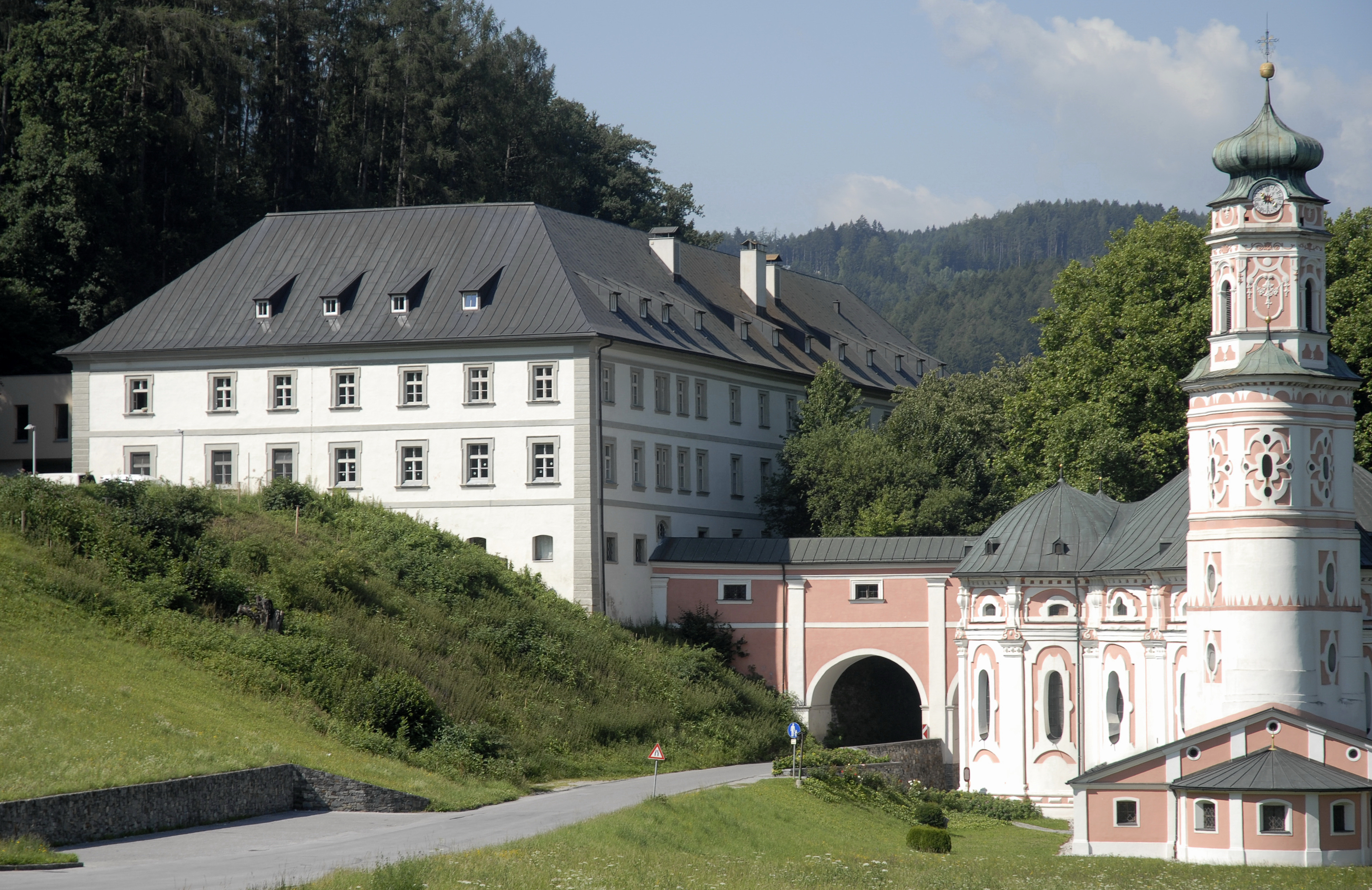 Servitenkloster und Karlskirche Volders This media shows the remarkable cultural object in the Austrian state of Tyrol listed by the Tyrolean Art Cadastre with the ID 58611. (on tirisMaps, pdf, more images on Commons, Wikidata)